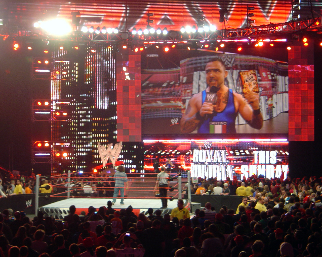 Santino Marella coming out to take the place of Kelly Kelly during an impromptu match scheduled between Kelly and Carlito. (As viewed from Section 108, Row H, Seat 11) January 25, 2010 / Nationwide Arena; Columbus, Ohio DSC06690